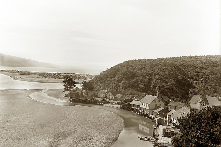 Homes by the Bolinas Lagoon, California